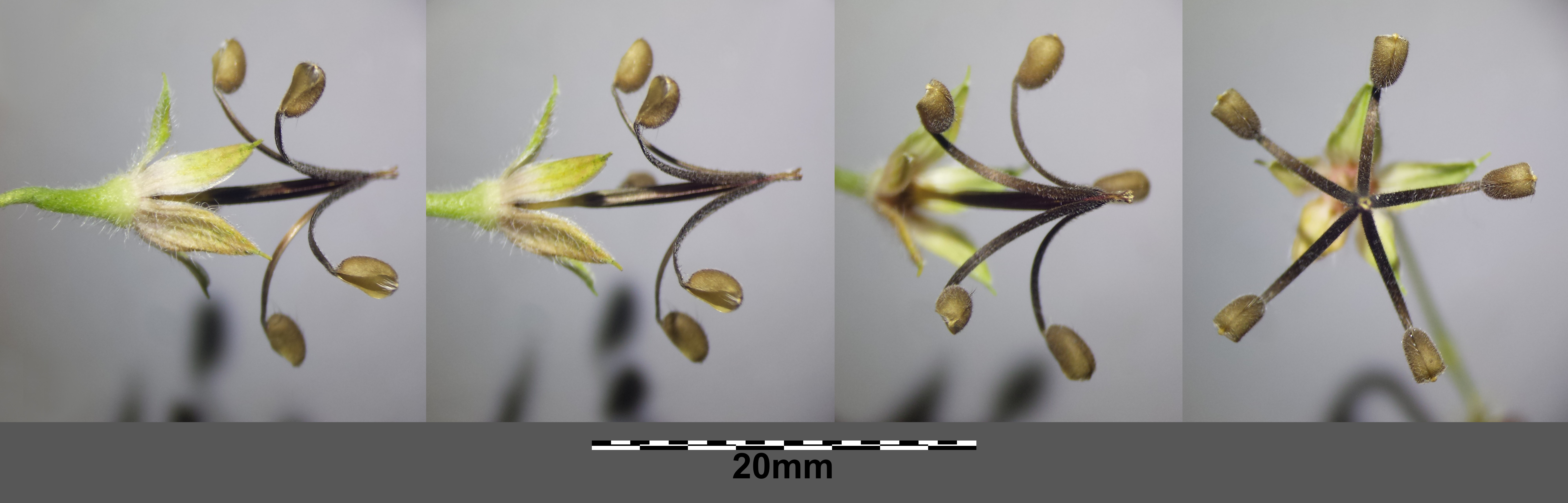 Fruit, opened Taxonym: Geranium sibiricum ss Fischer et al. EfÖLS 2008 ISBN 978-3-85474-187-9 Location: Schwarzlackenau, Vienna-Floridsdorf - ca. 160 m a.s.l. Habitat: wayside / border of a shrubbery